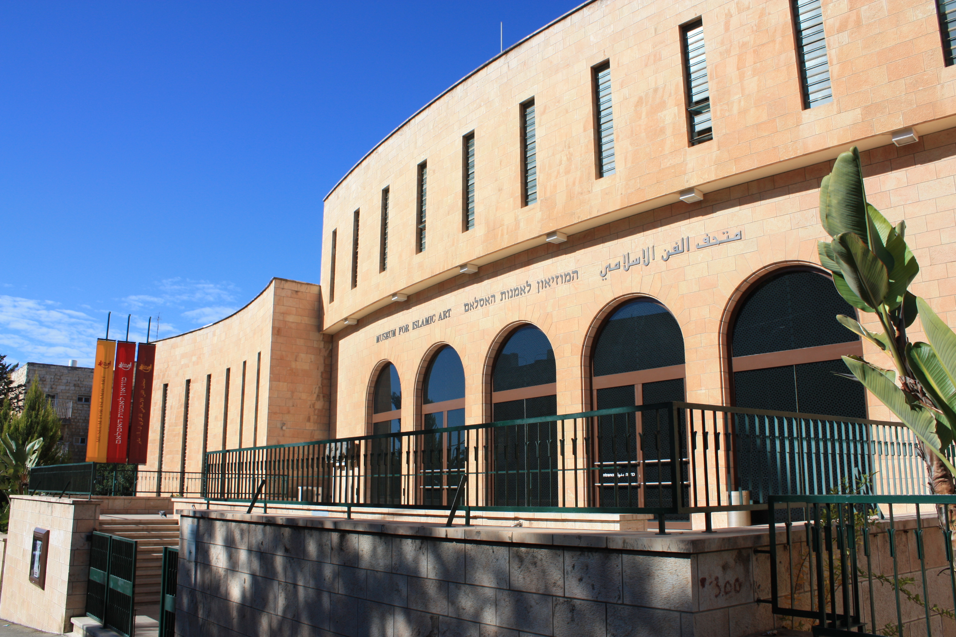 L. A. Mayer Institute for Islamic Art, Jerusalem, Israel